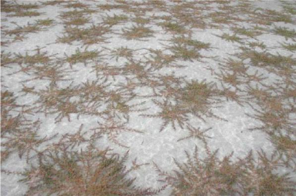 Suaeda pannonica